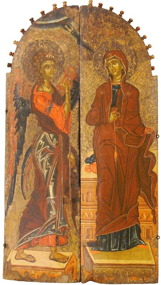 Annunciation, Late XIV Century, St Constantine and Helena Church, Ohrid Icon Gallery